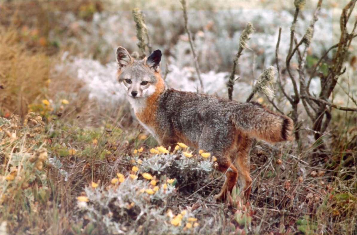 Island Fox (Urocyon littoralis), in the Channel Islands, California, USA.